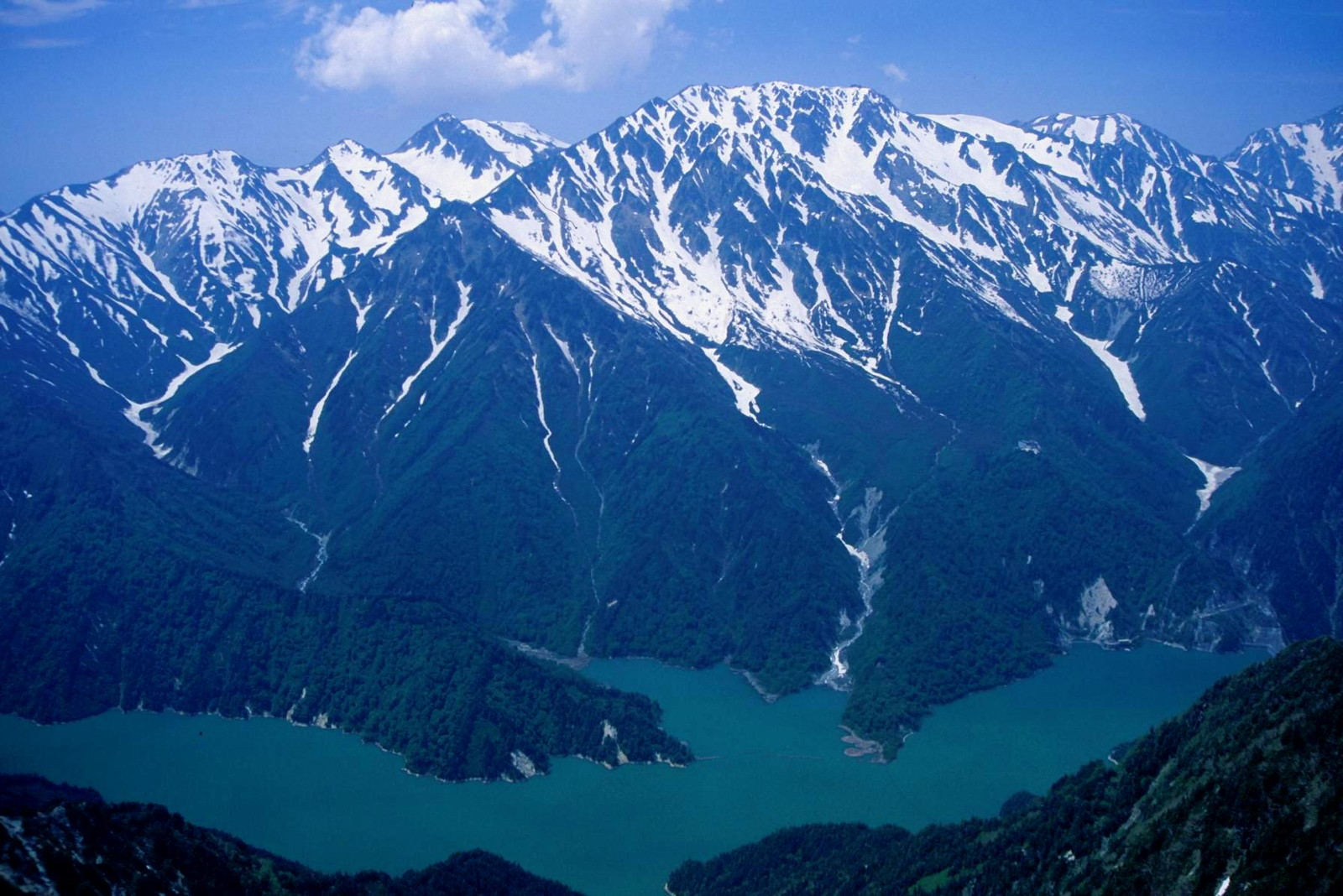 Mount Tate seen from Mount Harinoki in Hida Mountains, Japan.